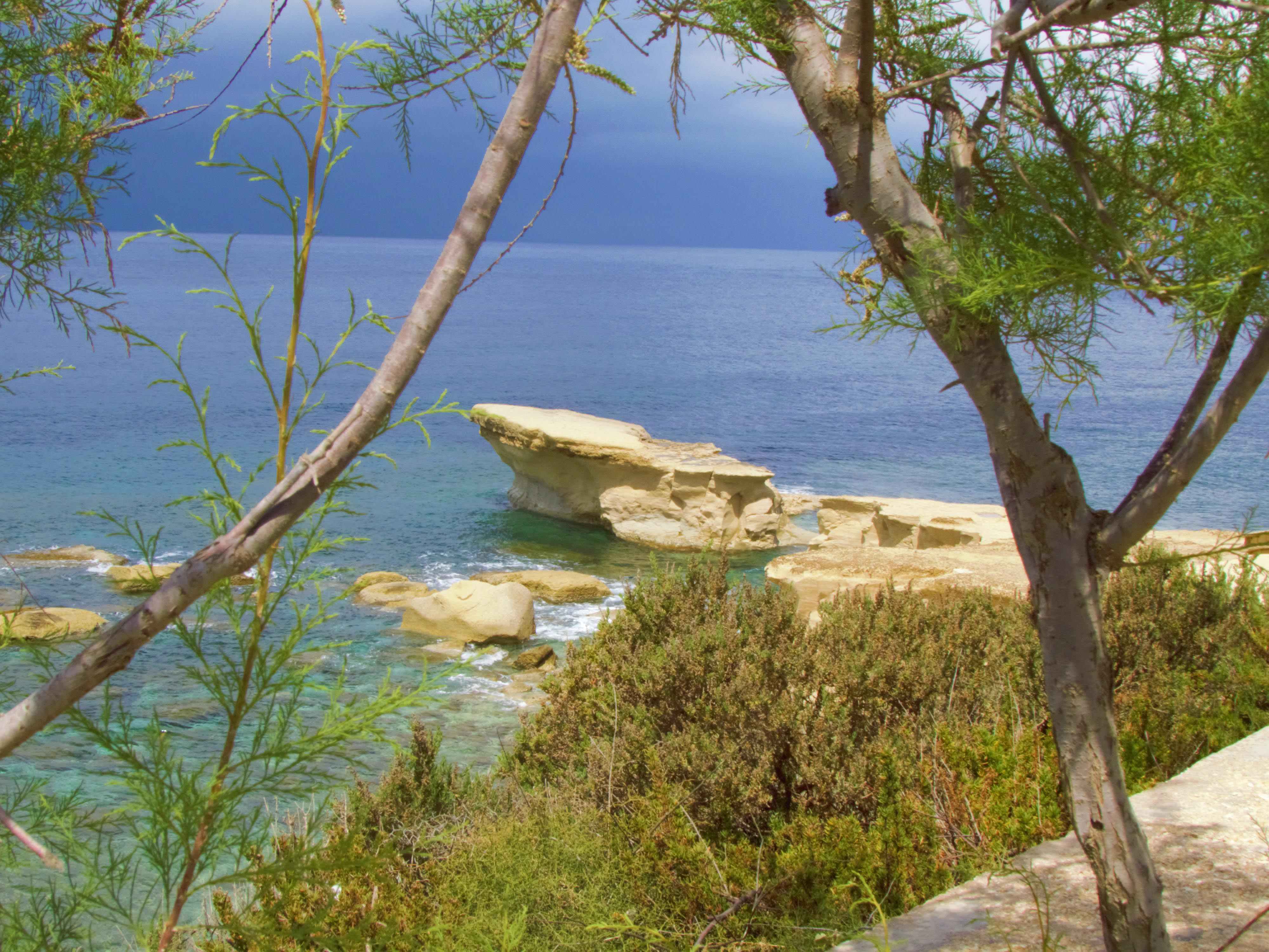 Marsalforn